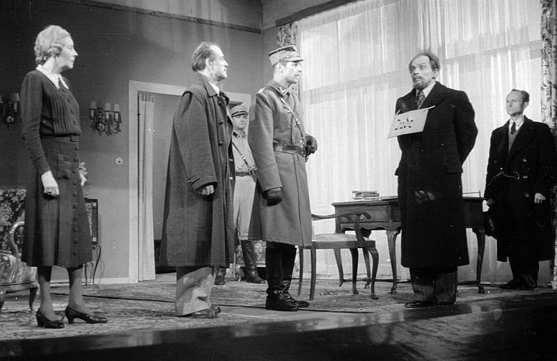 Original image description from the Deutsche FotothekIn der Hauptrolle Walter Franck als Professor Mamlock